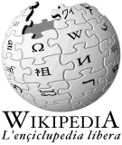 Logo of